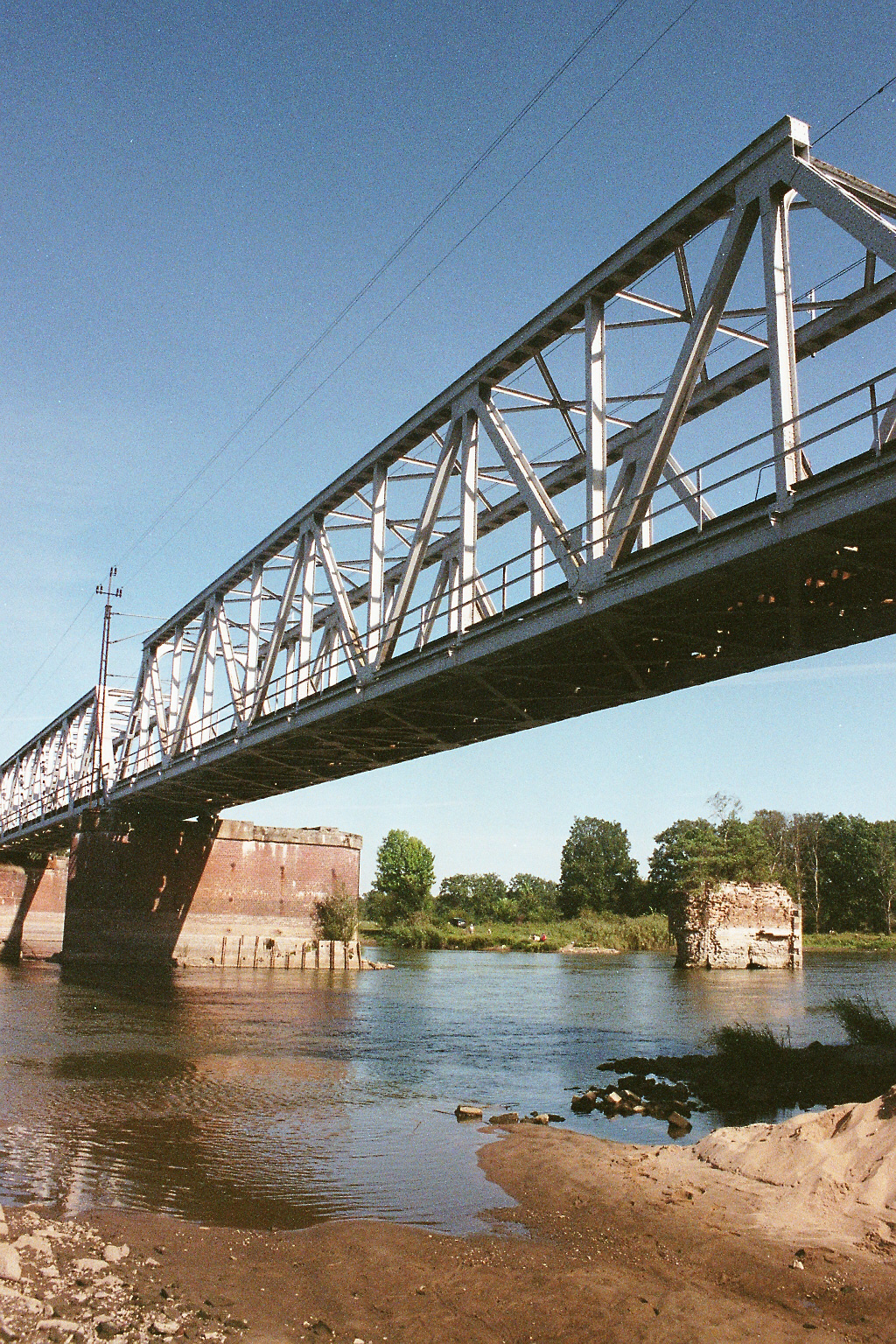 Railway bridge across Oder river in Pomorsko near Zielona Góra.